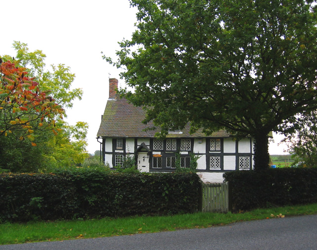 Moss Cottage, Edleston, near Nantwich, Cheshire